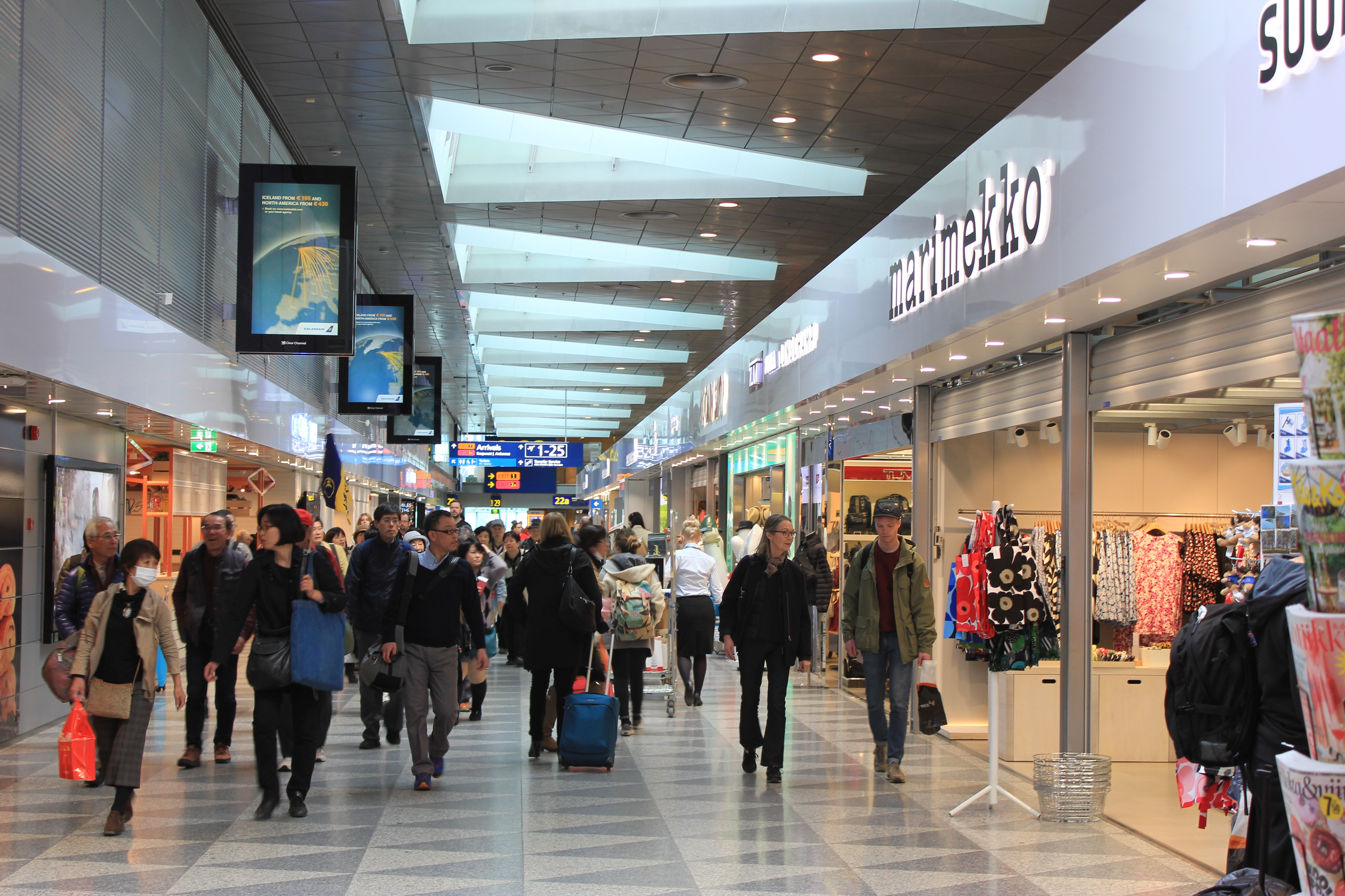 Helsinki-Vantaa Airport (HEL/EFHK) - Terminal 2